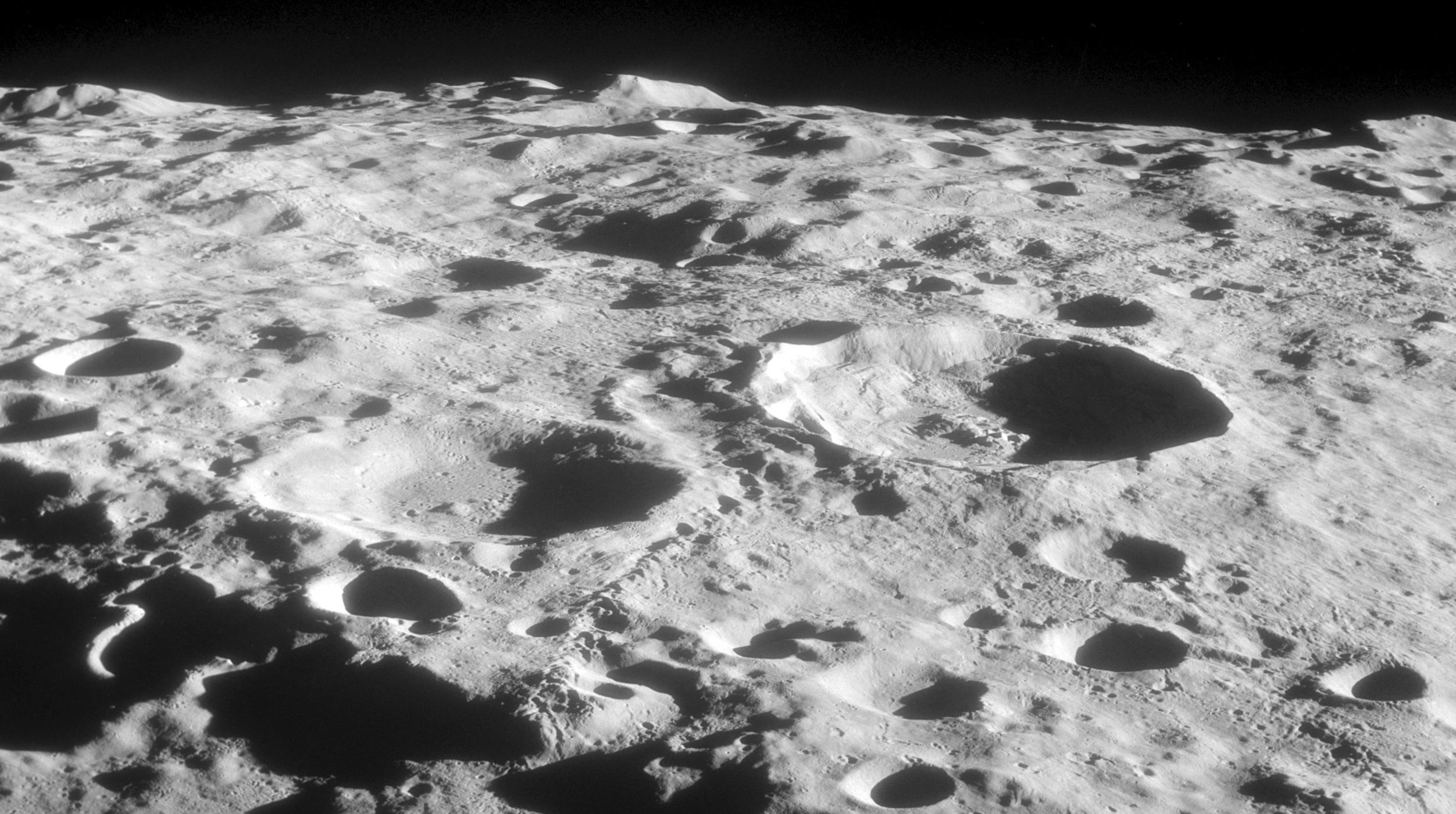 Oblique view of Crookes (right of center), on the far side of the moon. Facing south. Crookes D is left of center. The rim of Korolev is in lower left corner, and Mohorovičić is in the background.